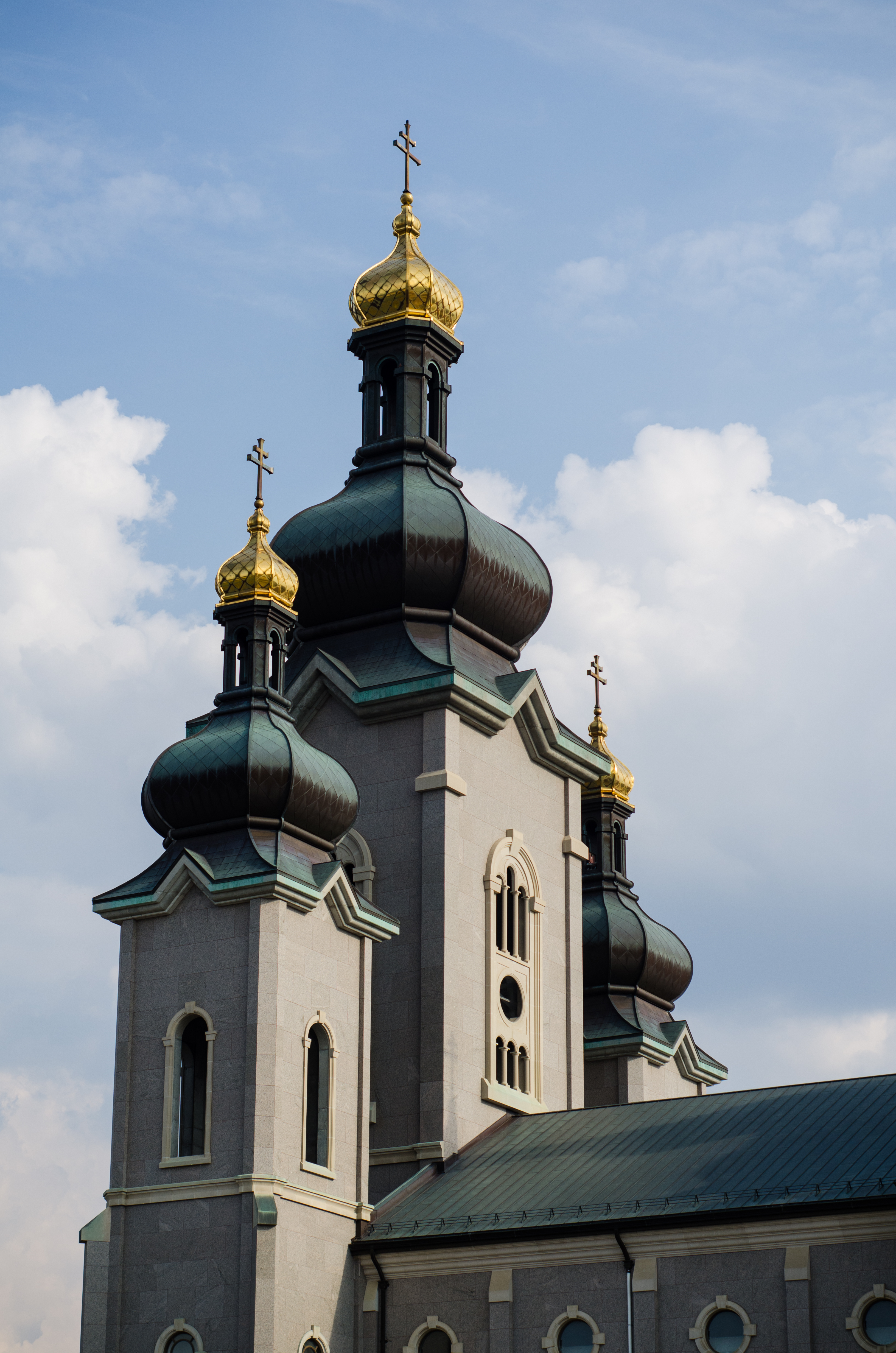 Cathedral of the Transfiguration (Markham).